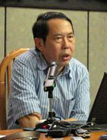 Shi Yinhong, a professor of International Relations and Director of the Center for American Studies, Renmin University of China